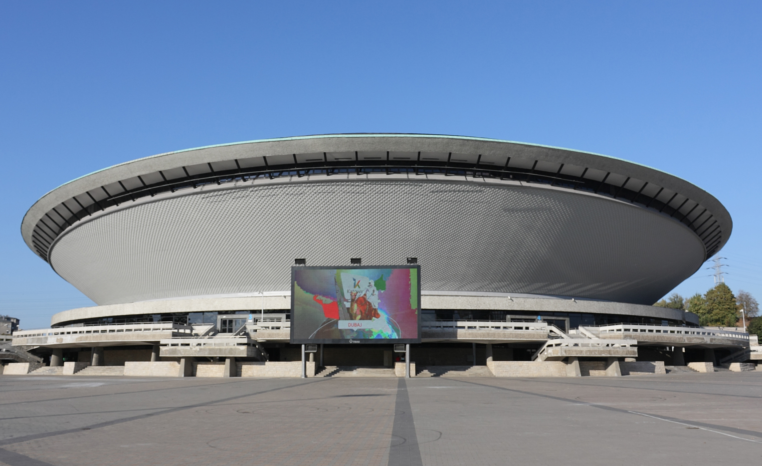 Spodek with new elevation.